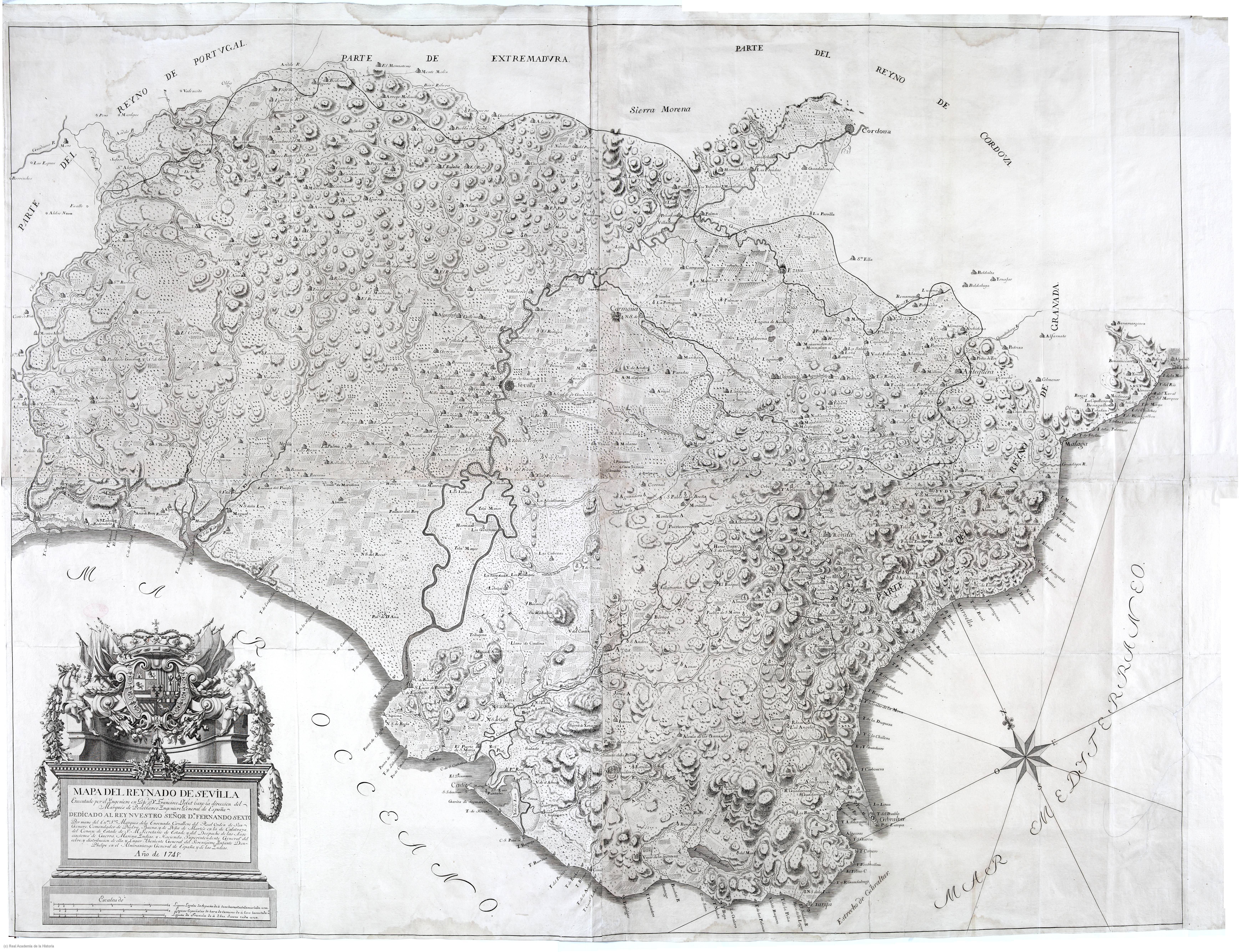 Map of the Kingdom of Seville, made by Chief Engineer Francisco Llobet under the supervision of the marquis of Pozoblanco, Spain's General Engineer.